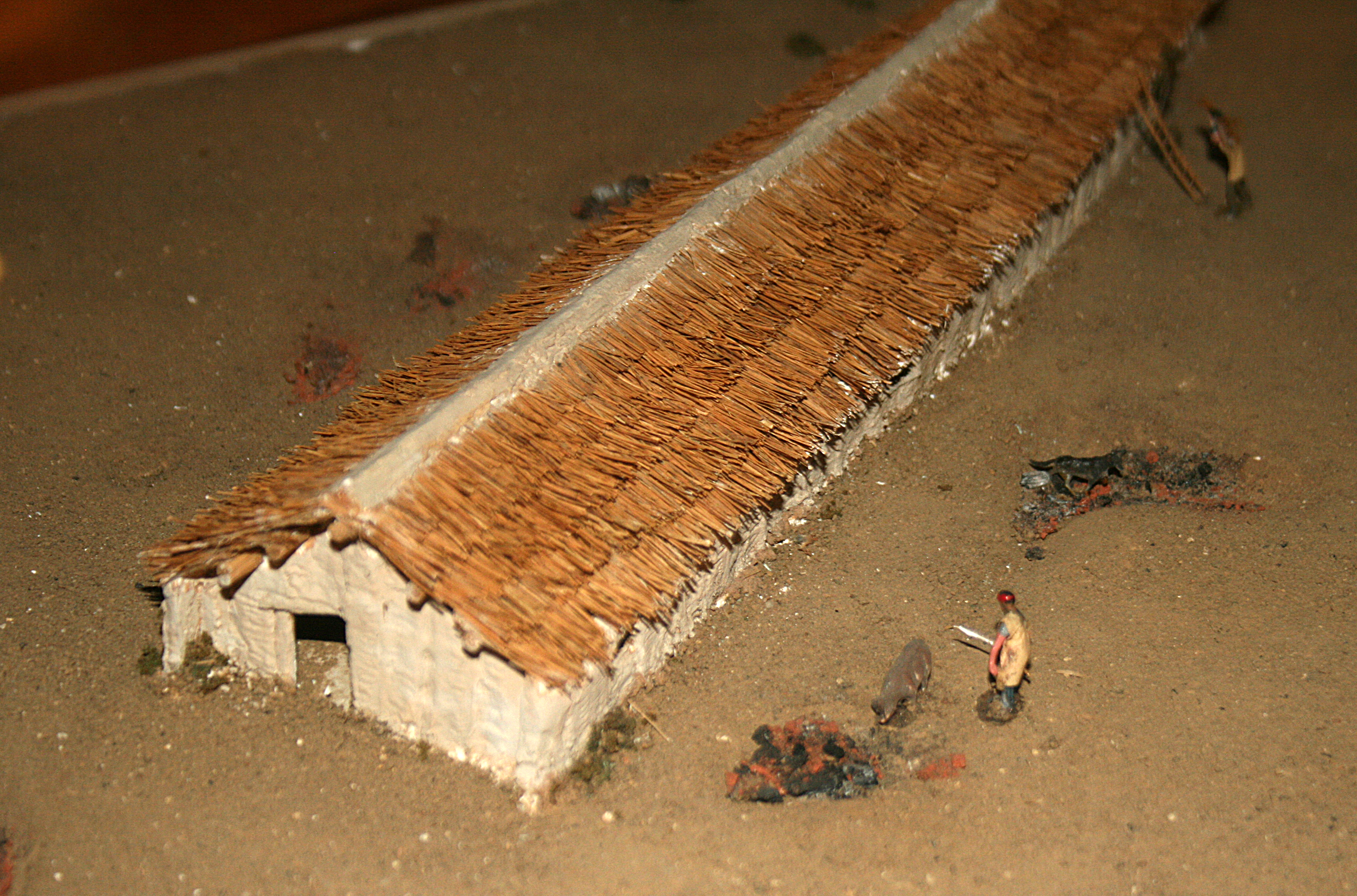 Neolithic farm (35 m long) Stage : Neolithic (Between -6000 and 2300 Before the Current Era) Locality : Échilleuses, Loiret, France